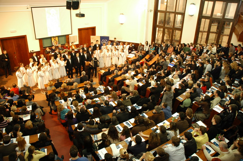 Belgrade Law School's Academic Year Inauguration